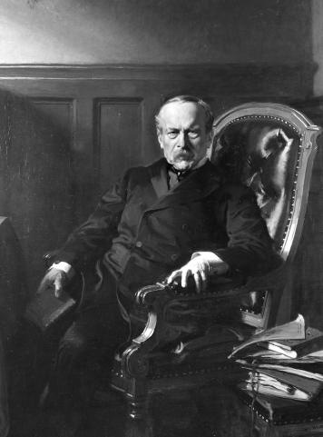 painted portrait of Auguste, baron Lambermont (1819-1905)